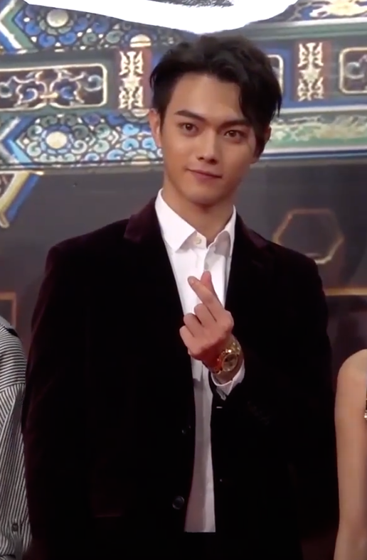 Xu Kai 《延禧》演員過中秋 2018-09-25